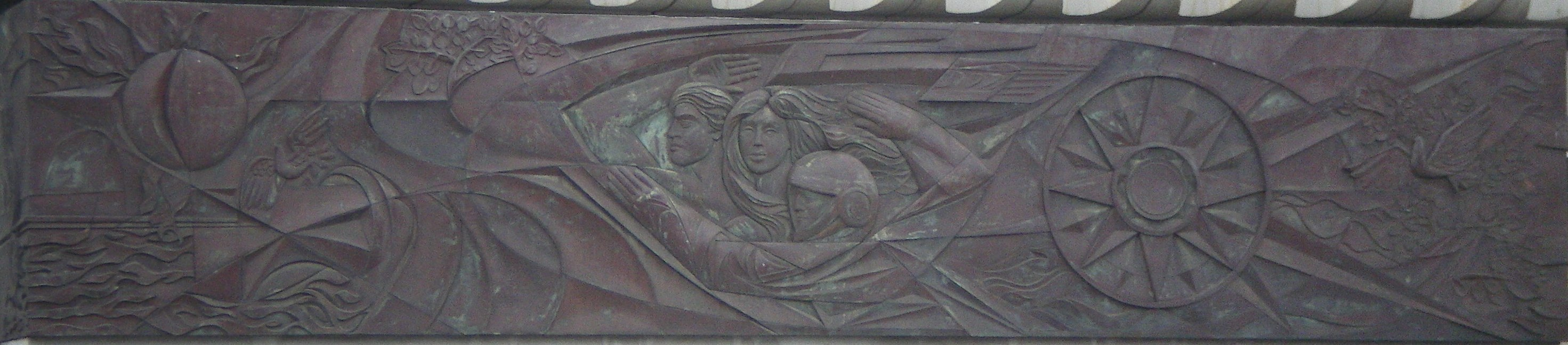 Frieze made by Walter Womacka for the building Haus des Reisens on Alexanderstrasse 7 in Berlin.